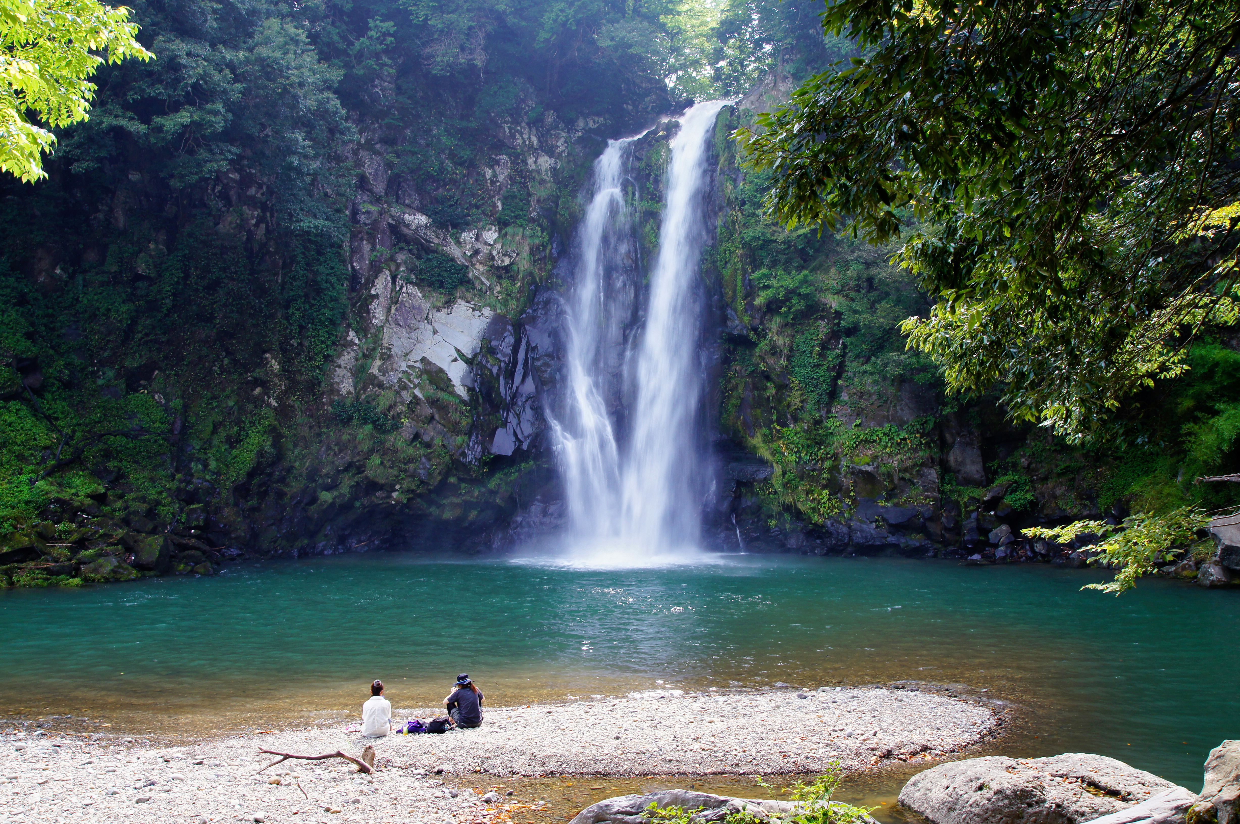 Hattandaki Waterfall in Kannabe highlands, Toyooka, Hyogo prefecture, Japan. It is a part of "San'in Kaigan Global Geopark" which joins in Global Geoparks Network.